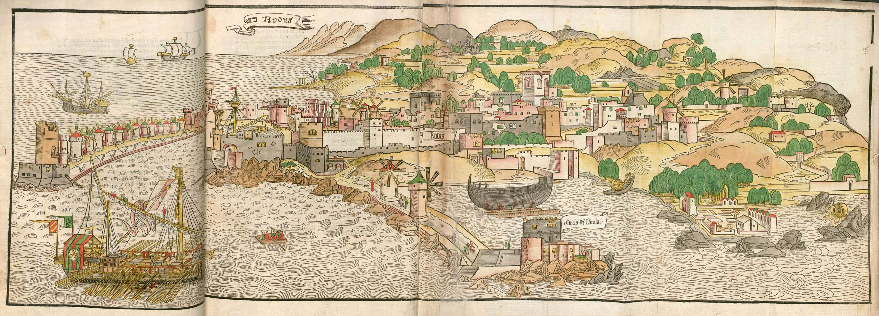 RODIS (Rhodes) - from Bernhard von Breydenbach's Peregrinationes in Terram Sanctam (Journey to the Holy Land) - 1st german edition, Mainz 1486 Format: 82,5 x 26,6 cm Woodcut